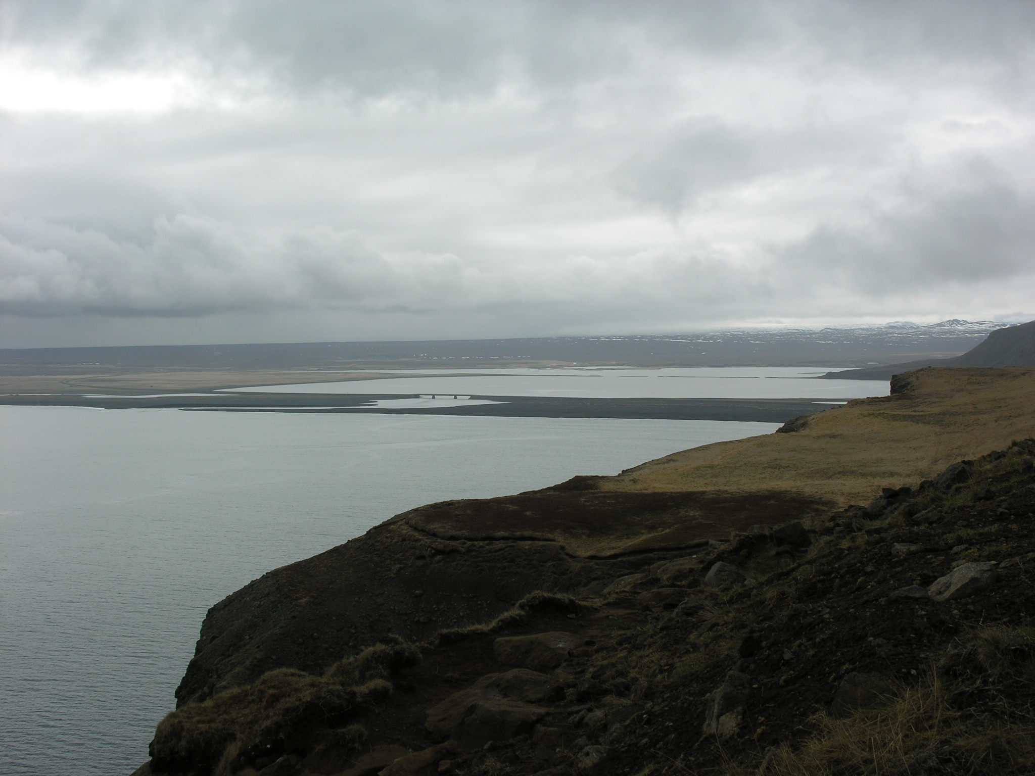 Iceland, along Road 85 between Húsavík and Ásbyrgi